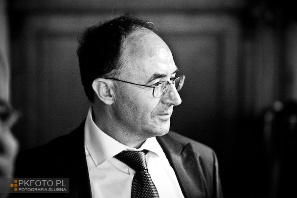 Luciano Reis in 2010